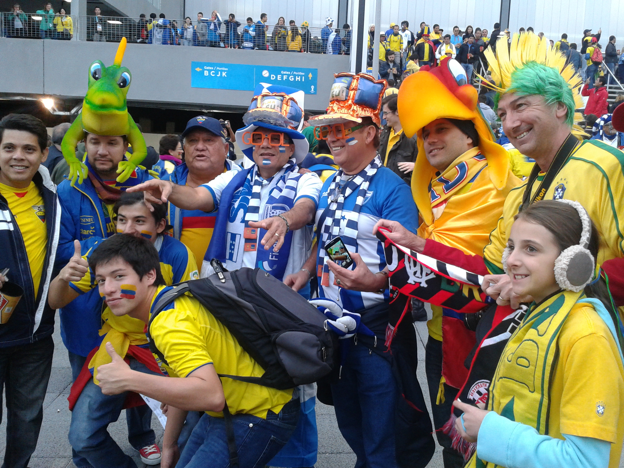 Honduras and Ecuador match at the FIFA World Cup (2014-06-20), Estádio Joaquim Américo Guimarães, Curitiba, Paraná, Brazil.